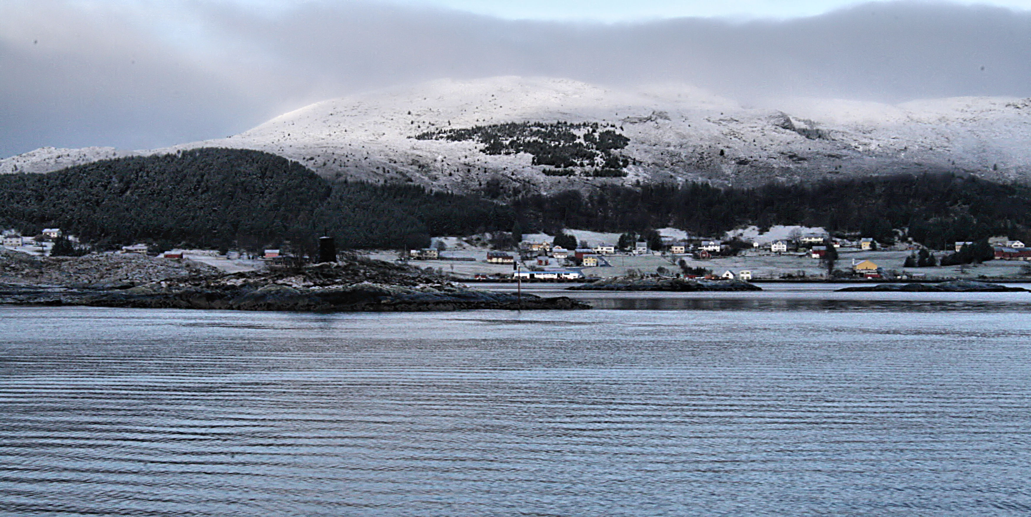 Torvik (Herøy municipality) Southwest Norway February 2006